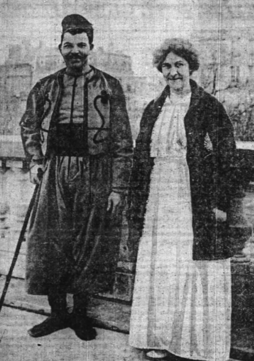 Dr. Mary M. Crawford with a patient - Ahmed - during the First World War.